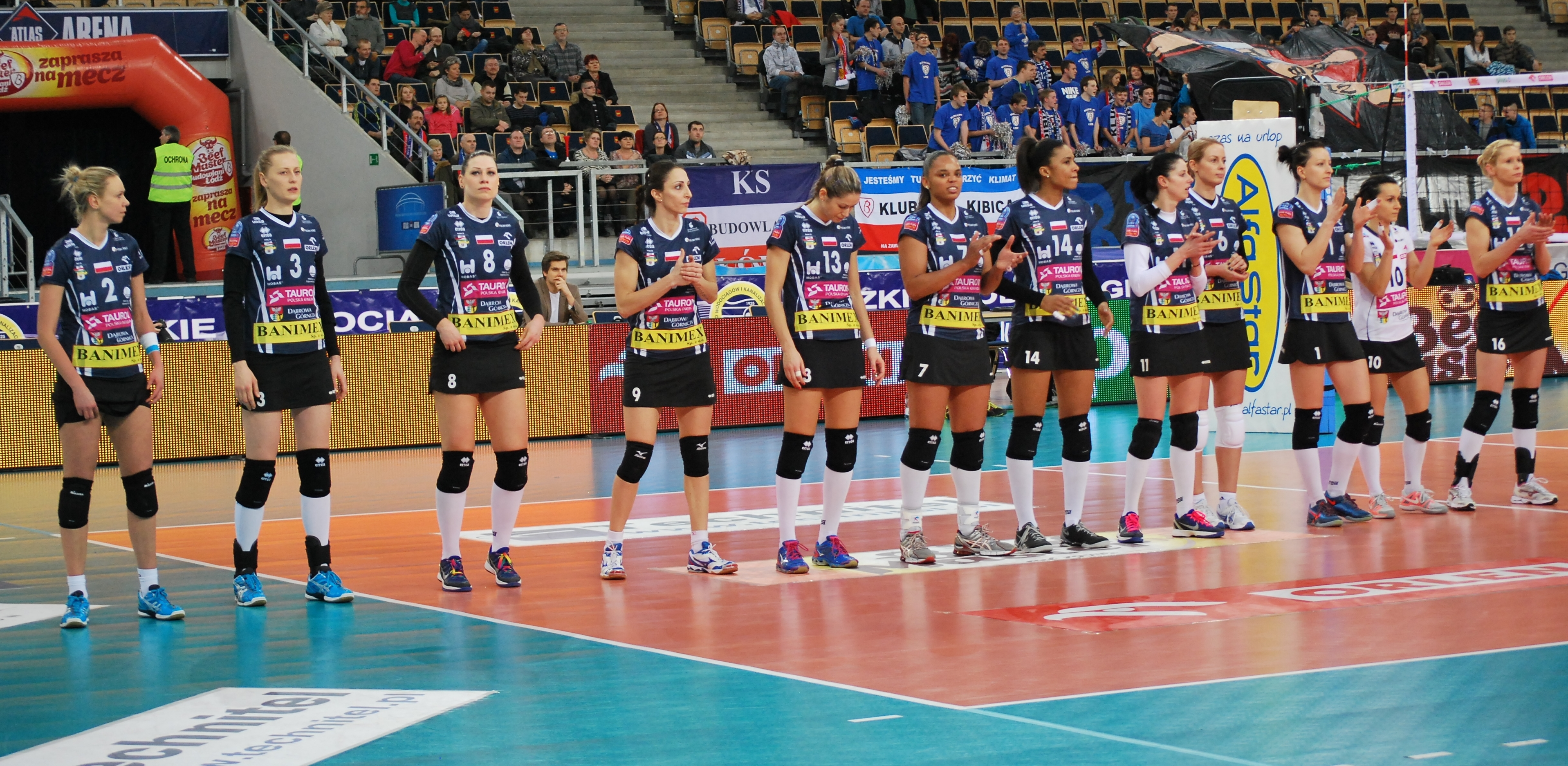 MKS Dąbrowa Górnicza in 2013/2014